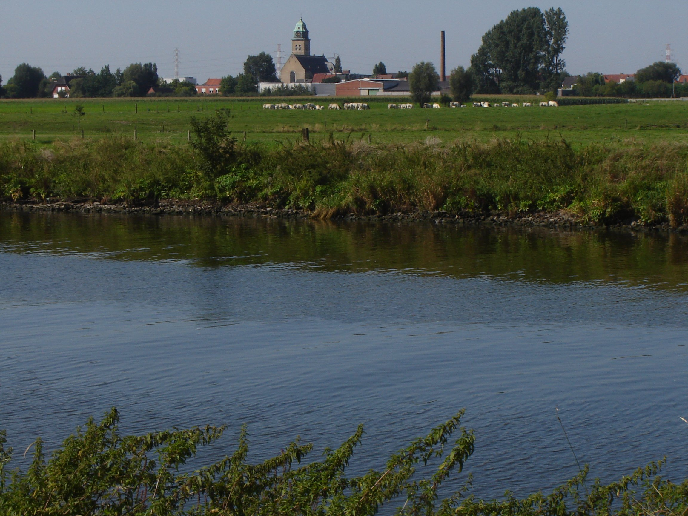 Sint-Theresiakerk and western district of Wevelgem. Wevelgem, West-Flanders, Belgium Picture taken from across the Leie river